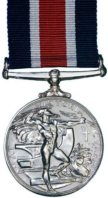 Reverse of British Royal and New Zealand Navy Medal for winner of annual shooting competition.